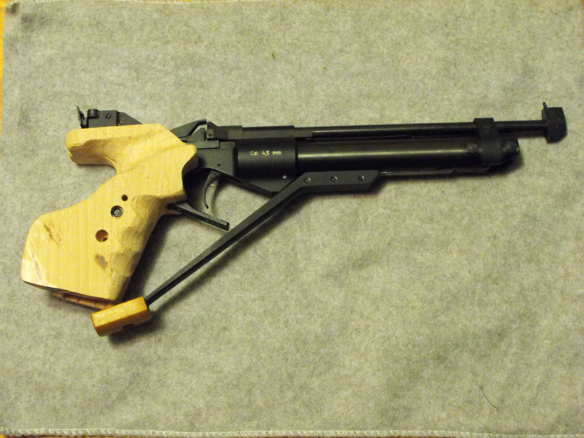 IZH-46 Air Pistol with unfinished custom left hand grips